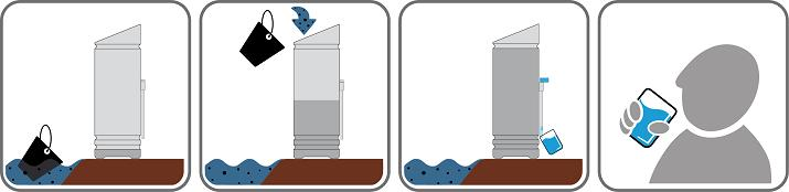 The Pictograms showing how to use the WaterBackpack "PAUL". These or similar stickers can be found on every PAUL. PAUL is a membrane filter unit used for filtering water for humanitarian aid.